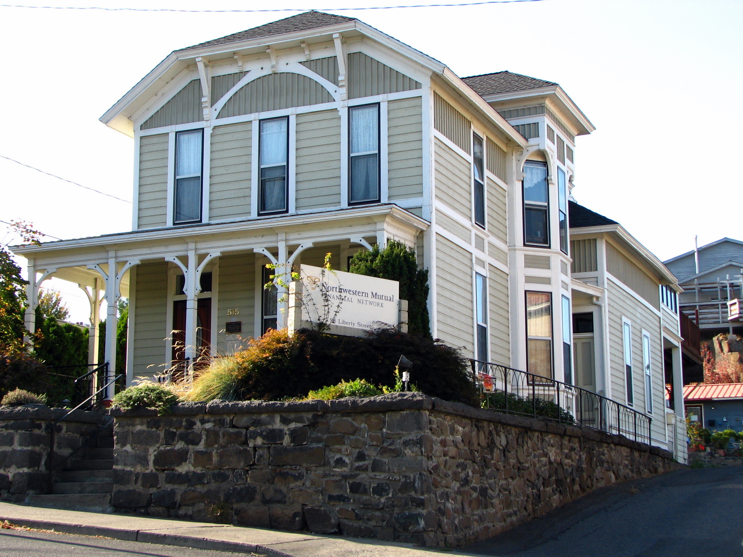 The historic Edward French House (built ca. 1865), located at 515 Liberty Street in The Dalles, Oregon, United States, is listed on the US National Register of Historic Places.